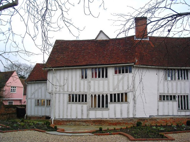 Lavenham Priory, Rear view Truly splendid bed and breakfast accommodation.